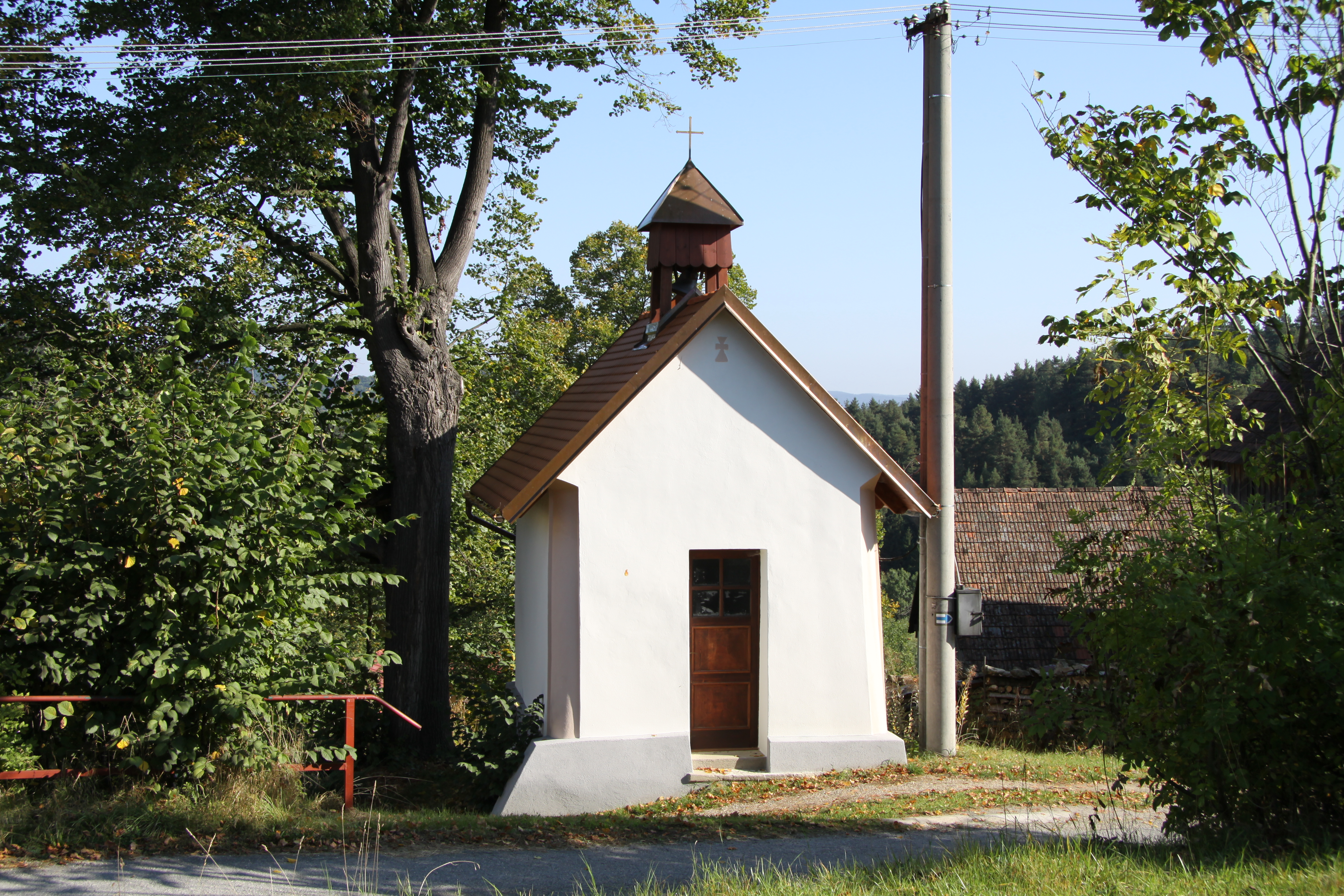 Chapel in Hradčany, part of Bošice village in Prachatice District, Czech Republic - Google Maps - Google Earth